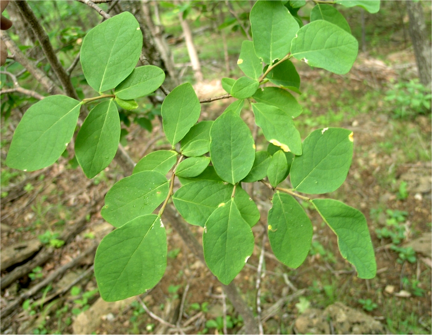 Dirca palustris (leatherwood) branch and leaves. Near North Fork Mountain, West Virginia, USA.